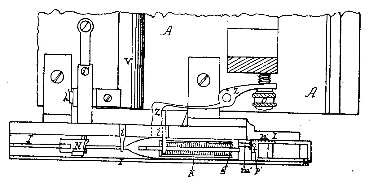 Figure 5 from US patent 4750 - Elias Howe's sewing machine